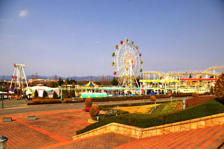 Fruit Flower Park in Kobe, Hyogo pref., Japan.